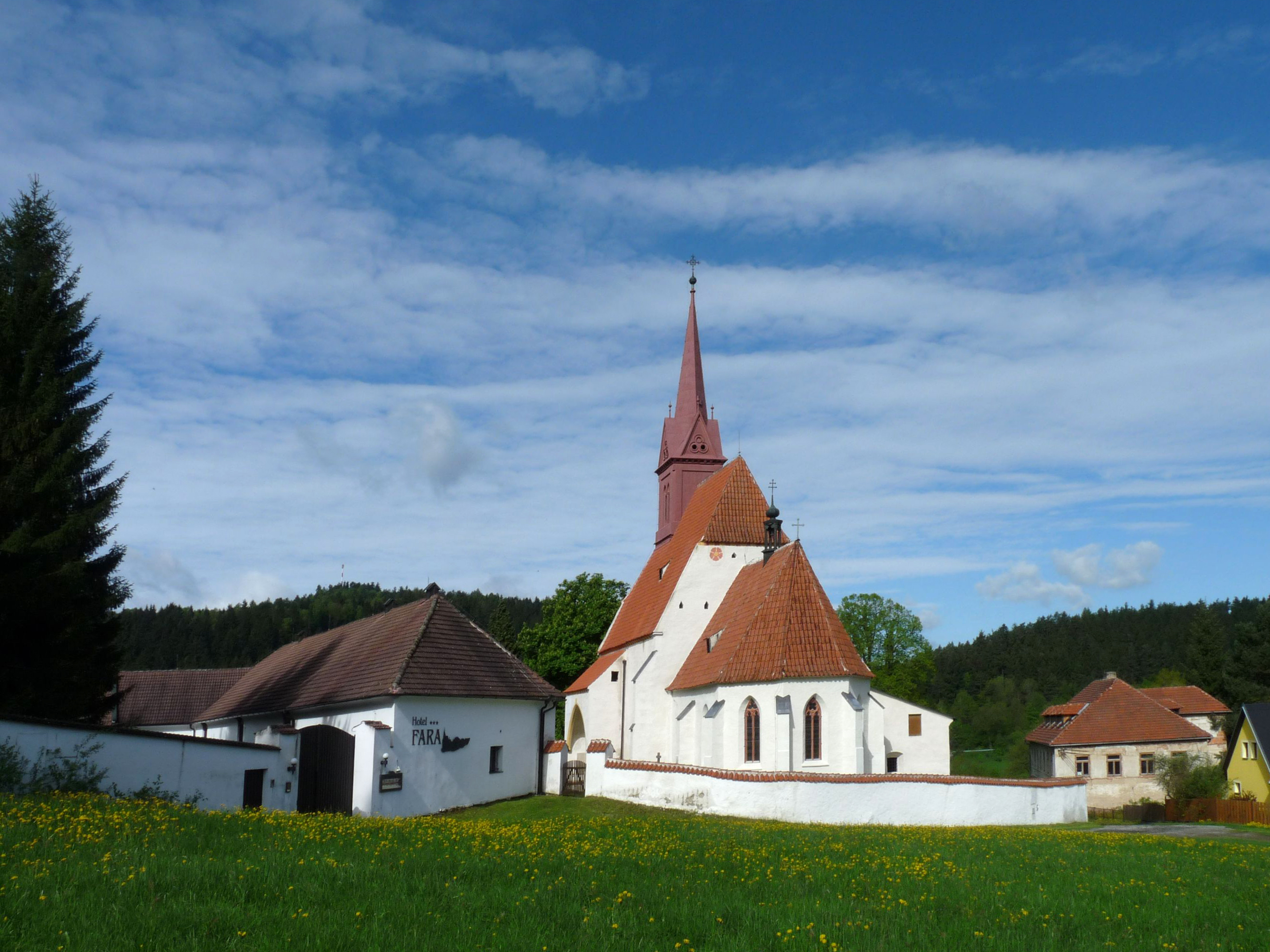 Church of Saint John the Baptist in the village of Zátoň, Český Krumlov District, South Bohemian Region, Czech Republic.